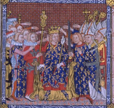 Coronation of Charles V of France